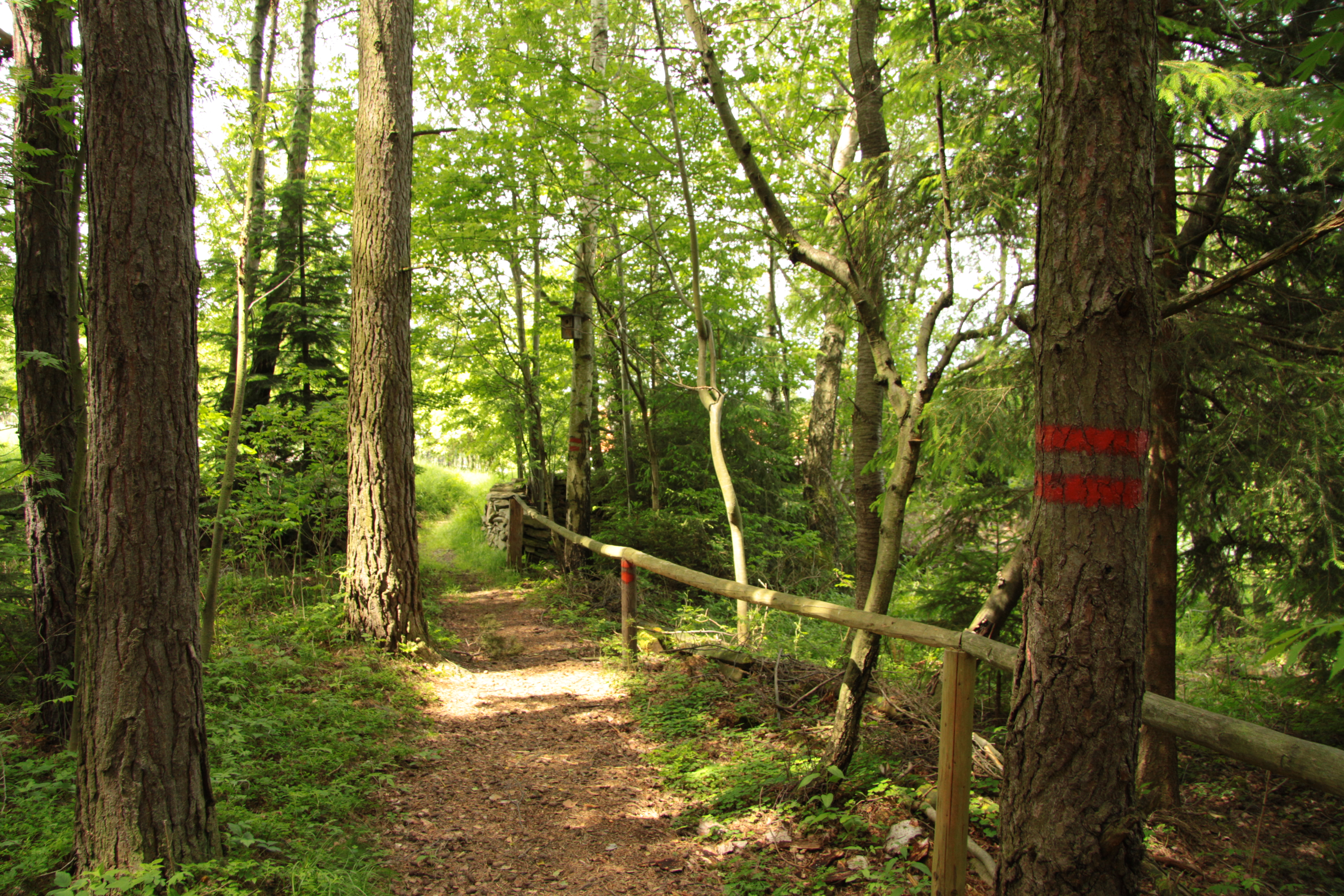 Natural monument Pod Vyhlídkou II near Nebahovy village, Prachatice District, Czech Republic - Google Maps - Google Earth